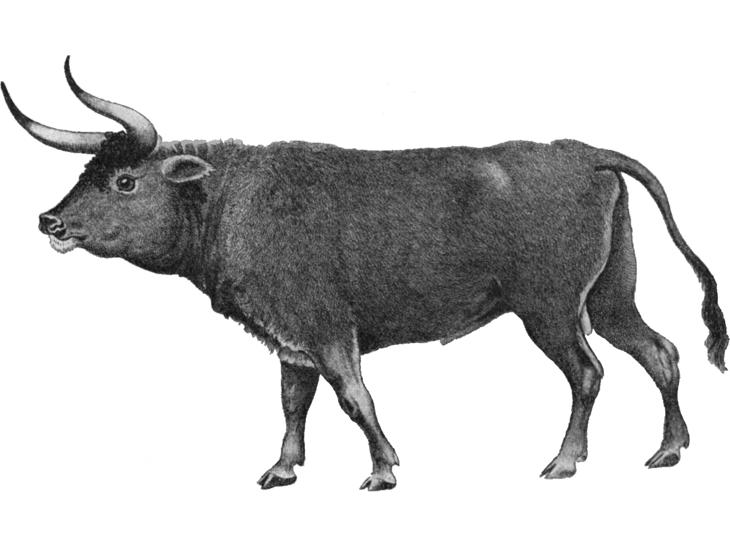 Auroch with blank outline